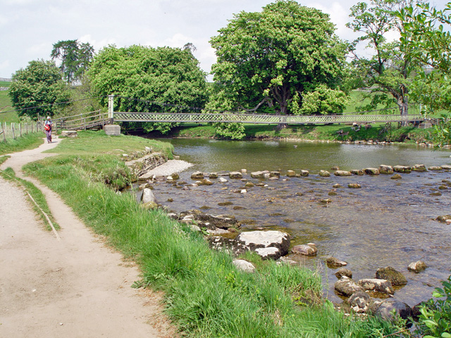 A choice of crossings over the river Wharfe There are stepping stones and there is the suspension bridge (or you can wade across). The stepping stones are a little variable in spacing, and the bridge is a little wobbly in the middle.